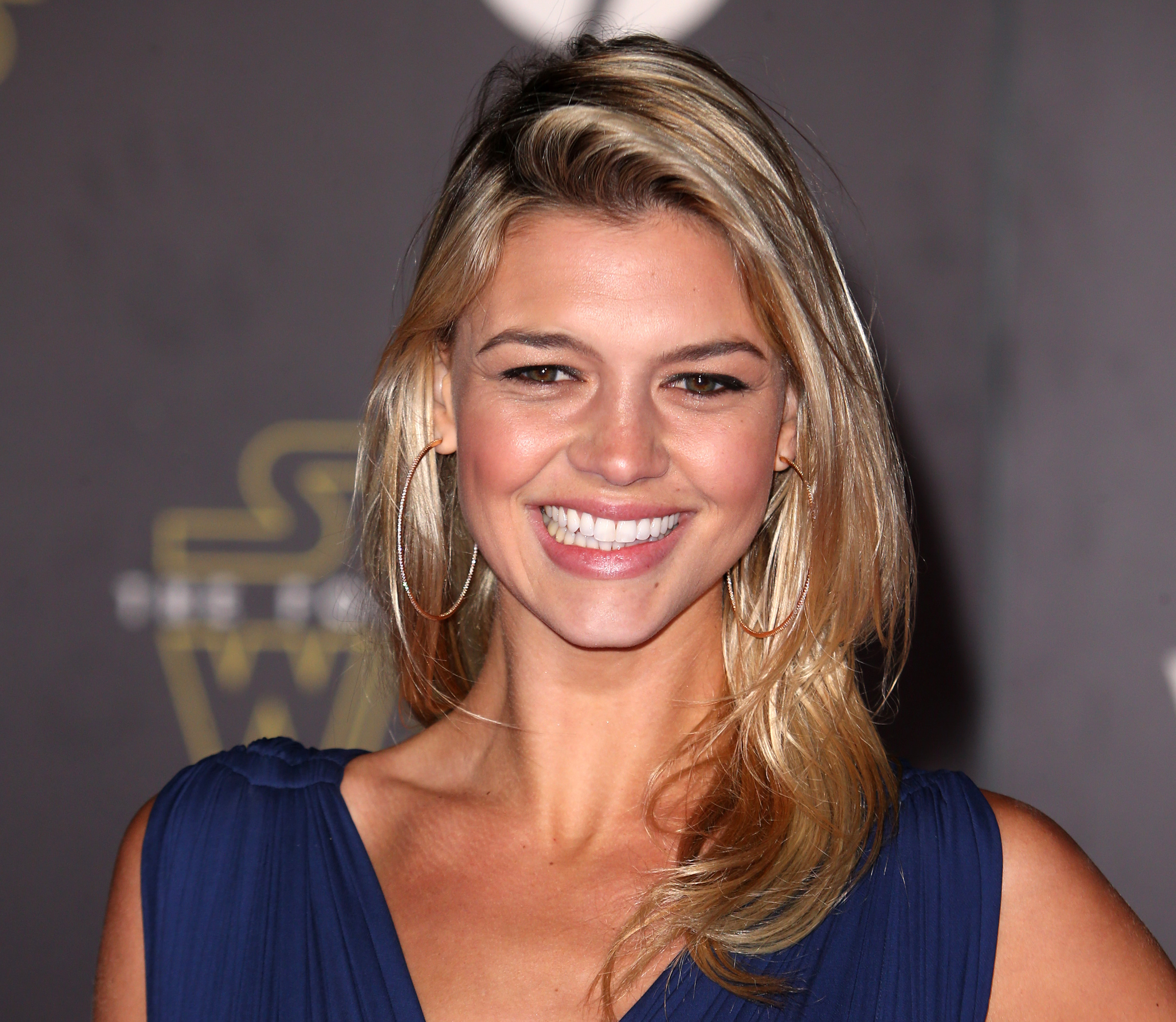 Kelly Rohrbach, at the world premiere of 'Star Wars: The Force Awakens' at the Hollywood & Highland, Los Angeles, California.